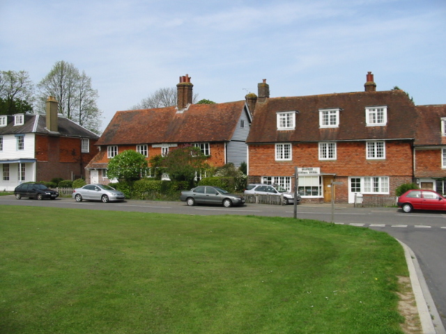 Properties along The Street, Benenden From the road encircling the village green which leads to the church.